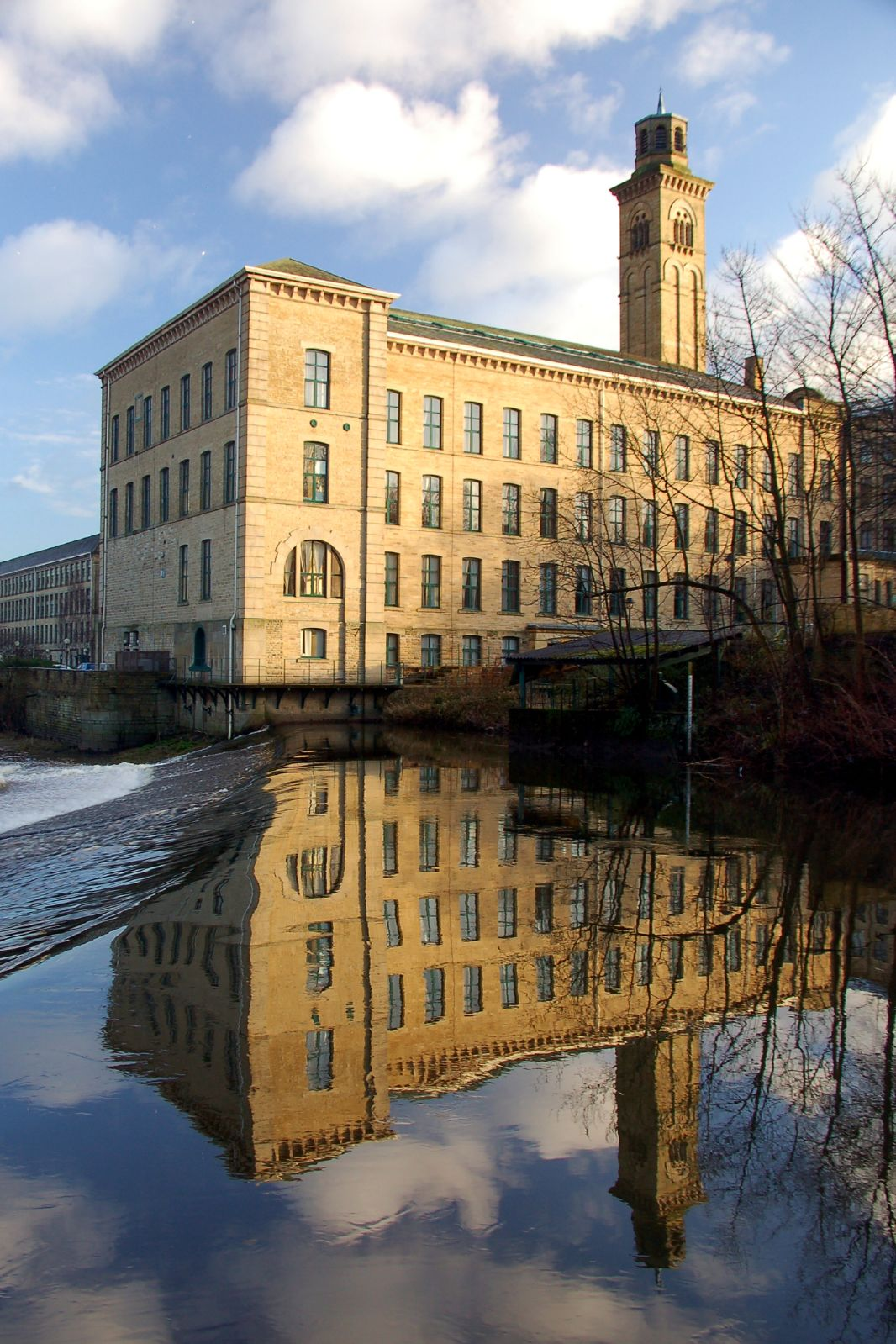 Saltaire New Mill, part of a UNESCO World Heritage Site in West Yorkshire, England.